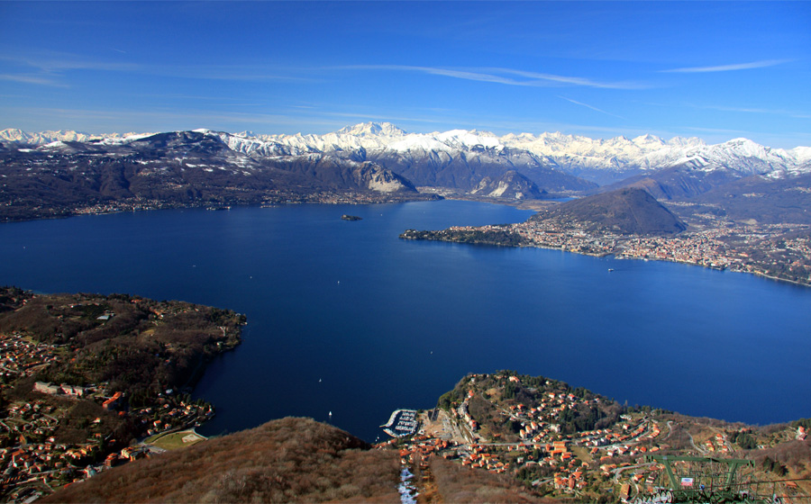 Panorama of Lake Maggiore from Poggio Sant'Elsa